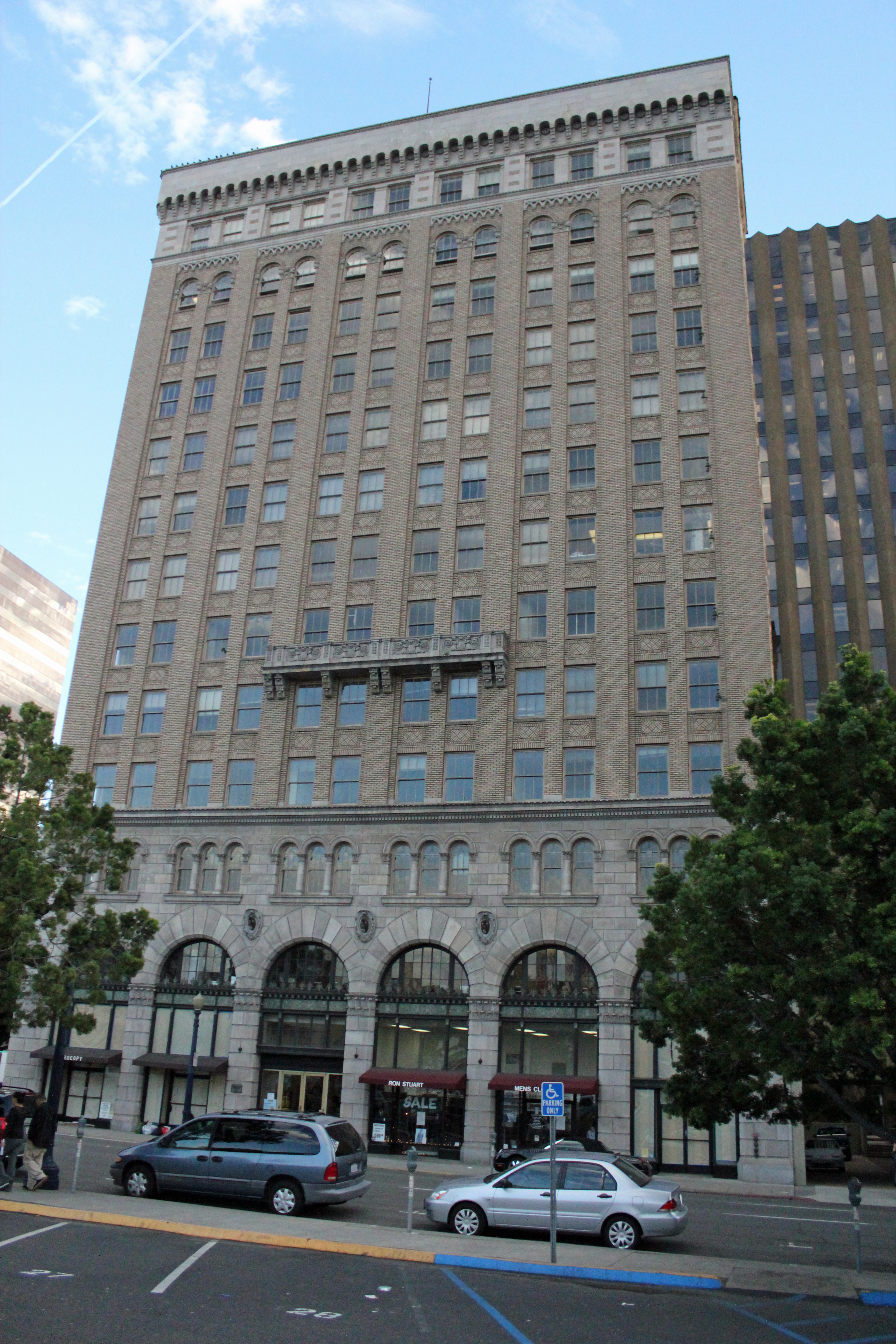 The Medico-Dental Building, located at 233 A Street in San Diego, California. The building is listed on the National Register of Historic Places.